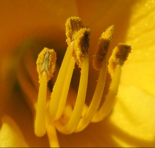 Macro Of lily Flower